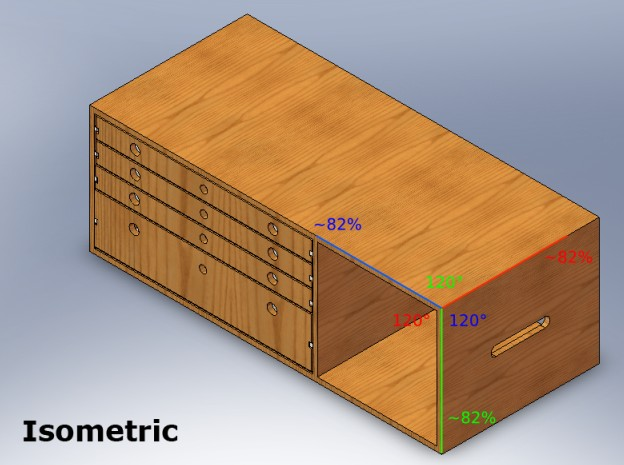 Isometric projection